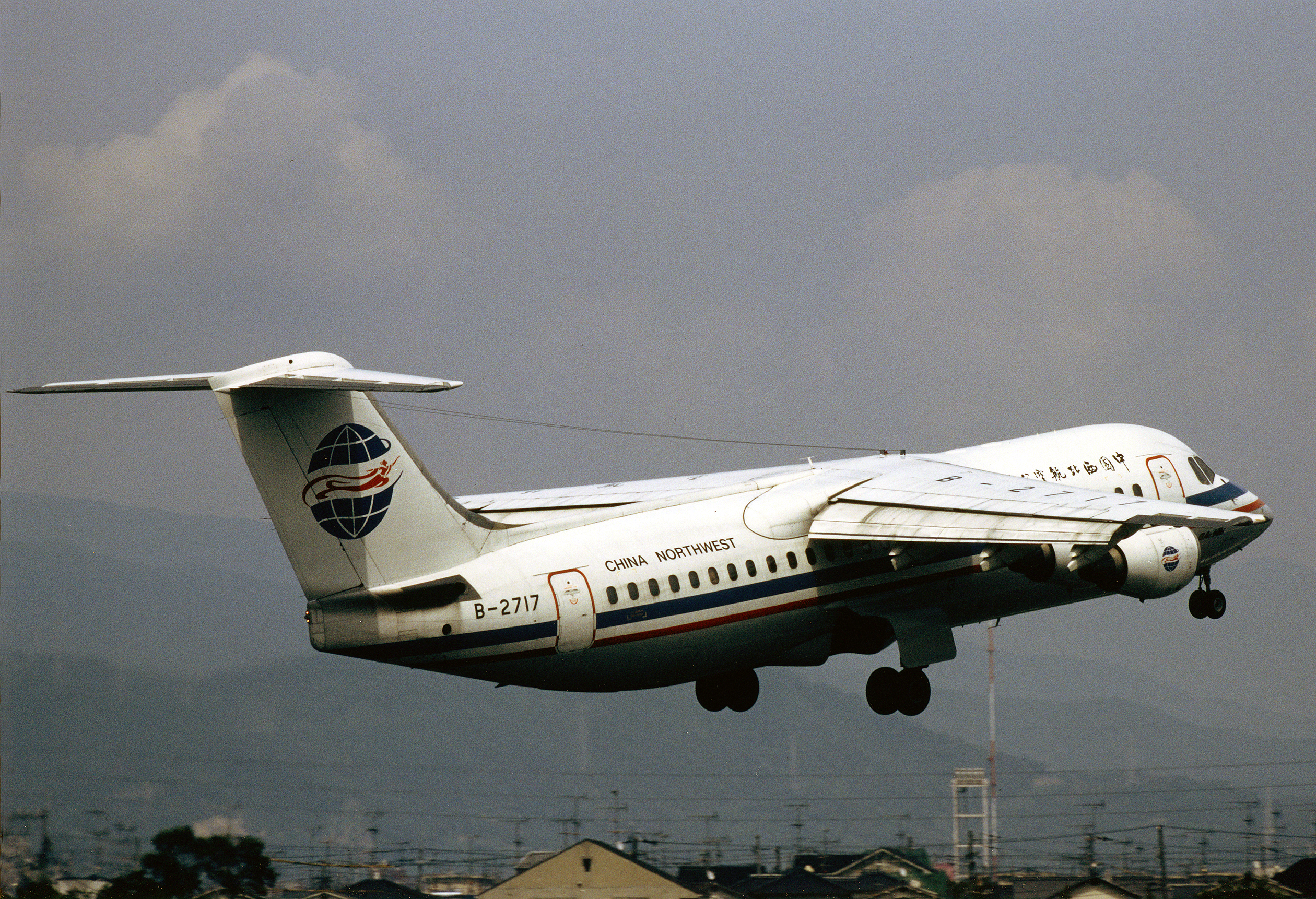 China Northwest Airlines BAe146-300 B-2717 at Matsuyama Airport